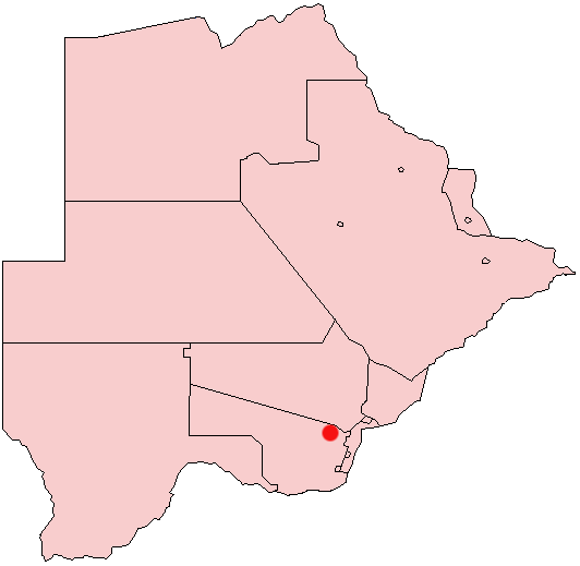 Moshupa, Botswana Location Map; created with the GIMP. Made by User:Acntx.